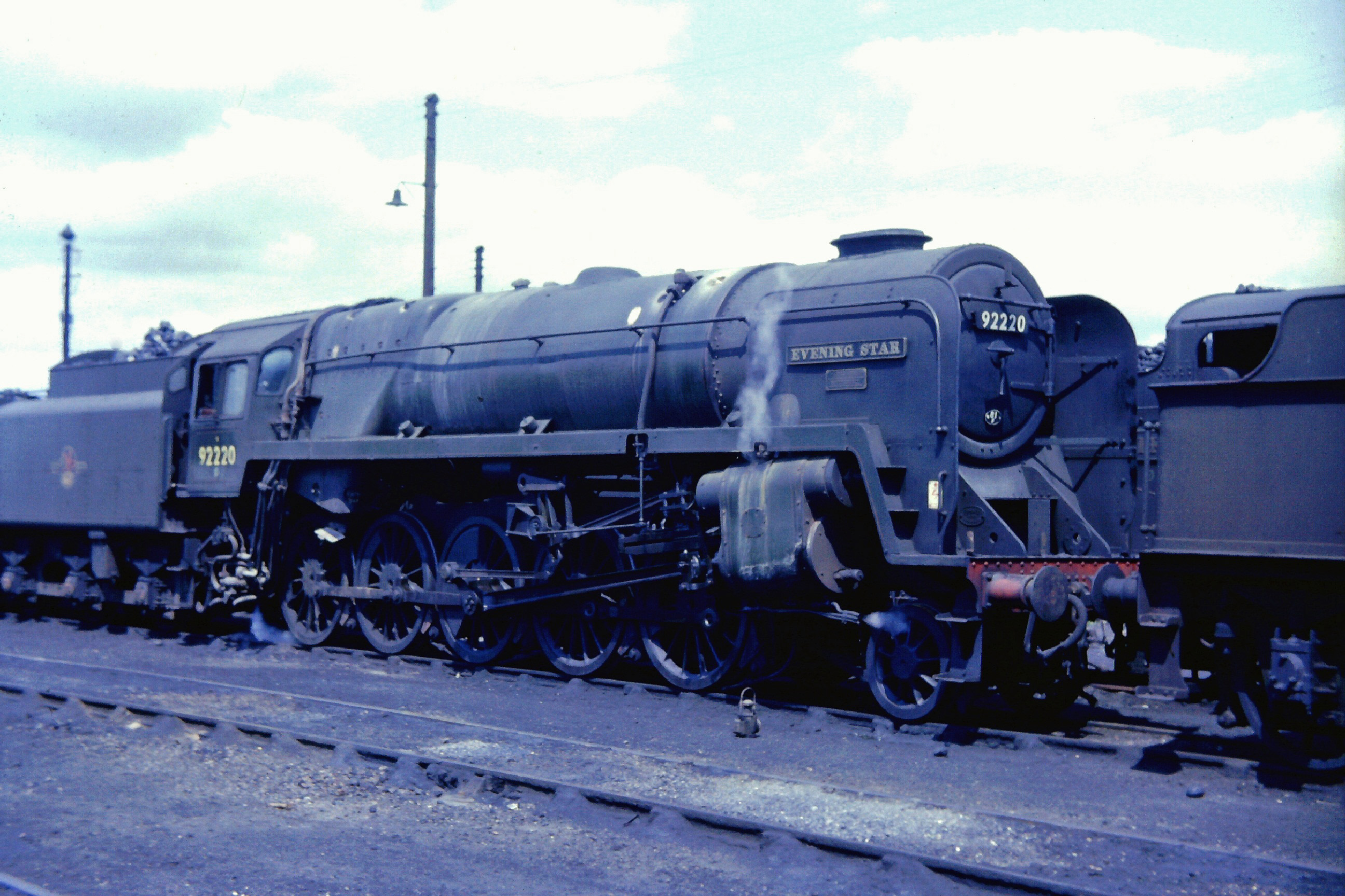 Standard Class 9F 92220 Evening Star Oxford MPD in 1964